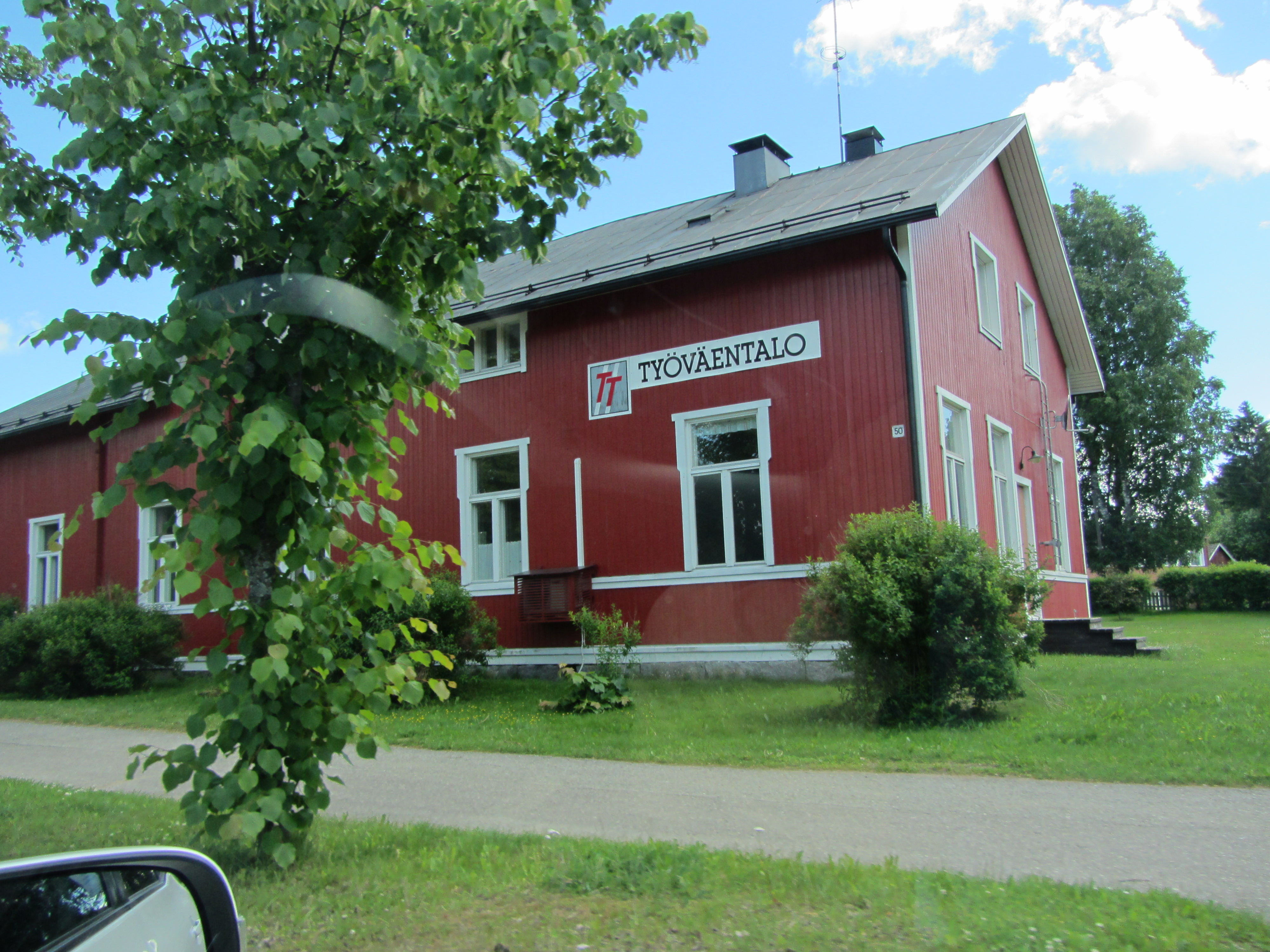 Joutsa center